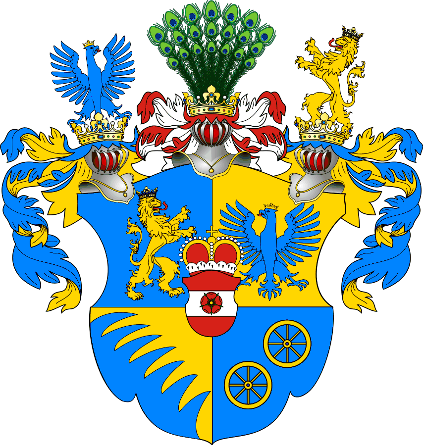 Coat of arms of von Gaschin family